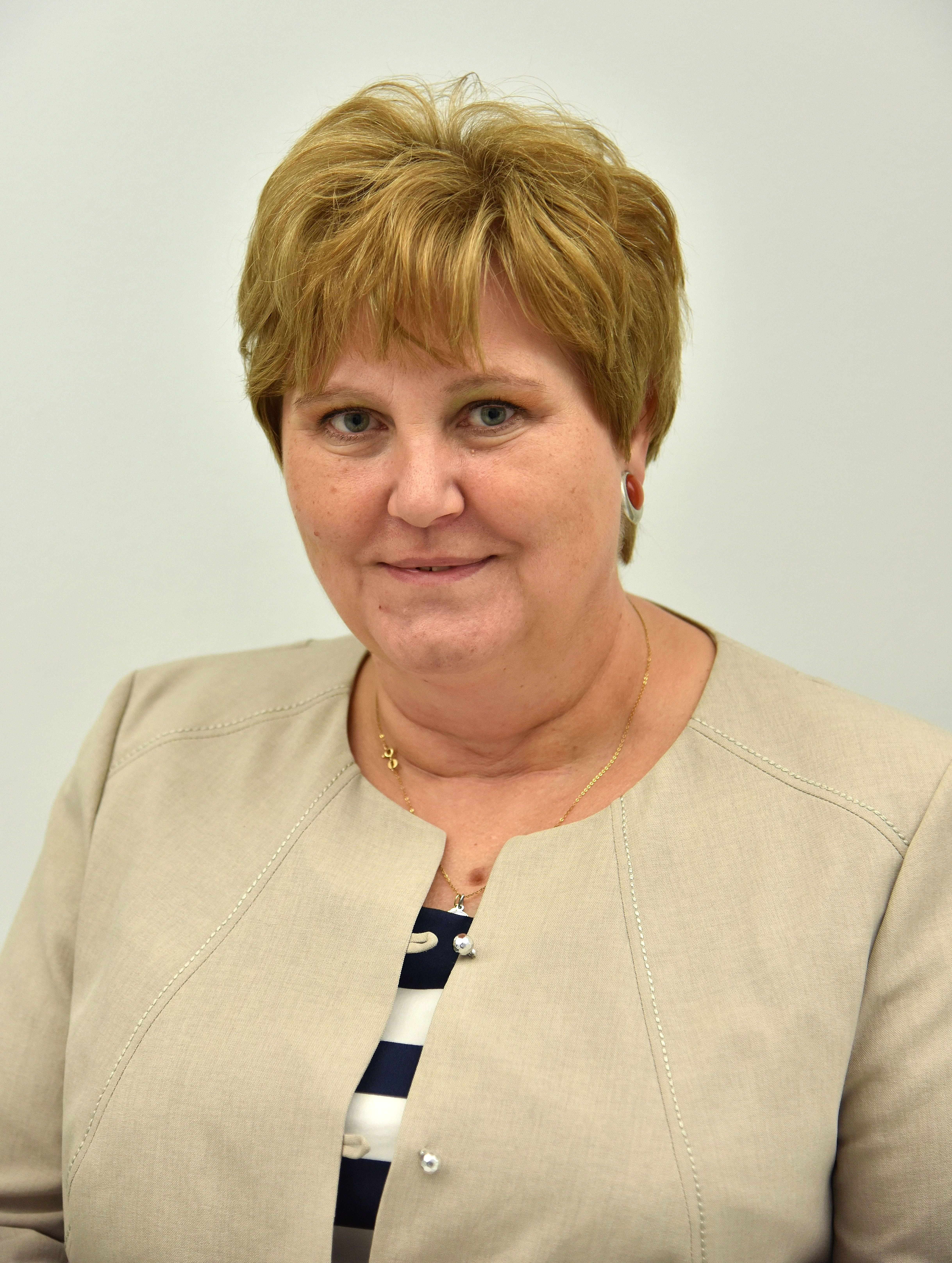 Polish MP Ewa Malik in the Sejm